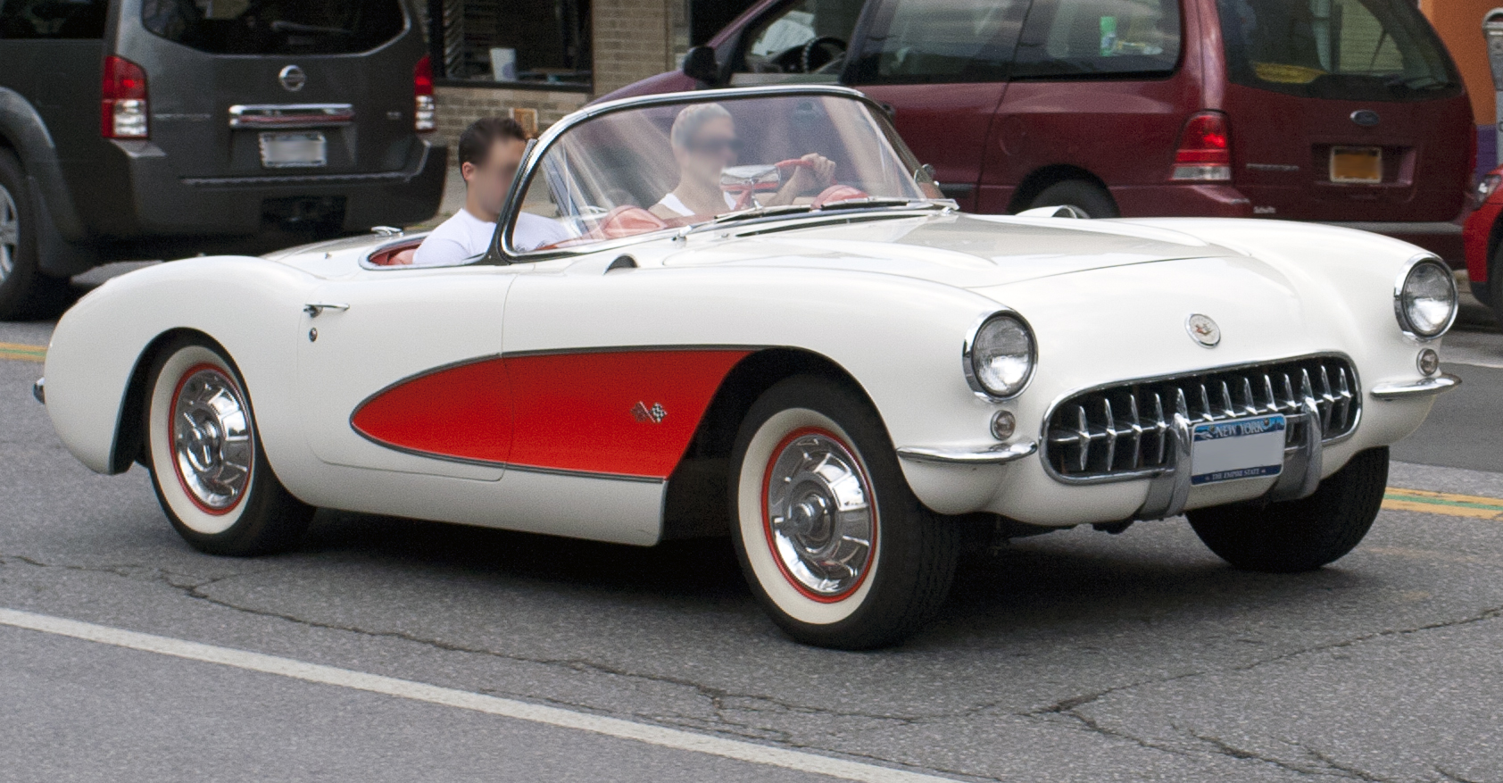 1956 (or 1957?) Chevrolet Corvette